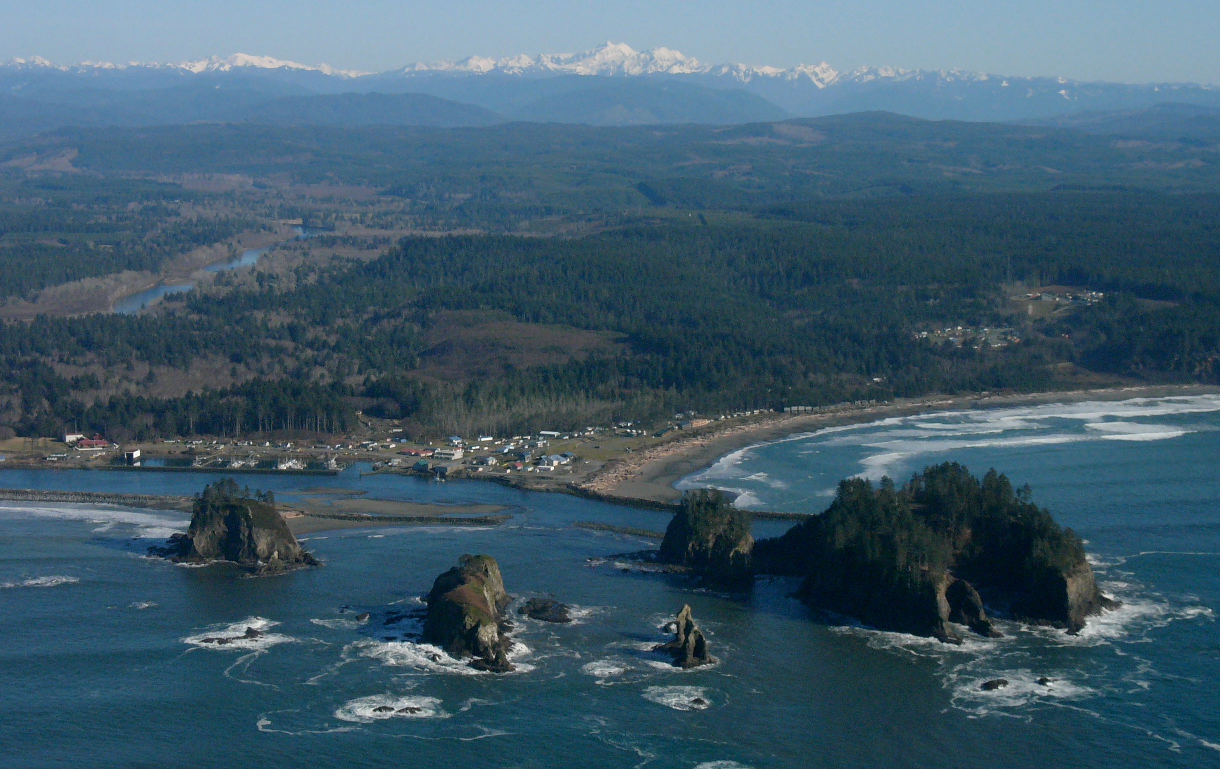 Quileute Nation & La Push, Washington